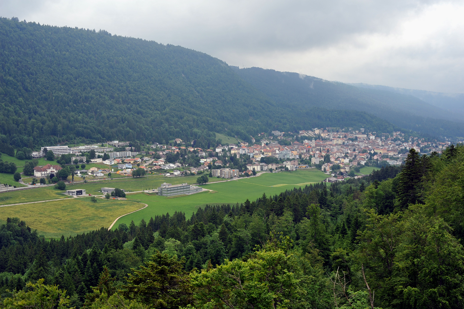 Vue to Saint-Imier from the ruins of the Château d'Erguël; Berne, Switzerland.